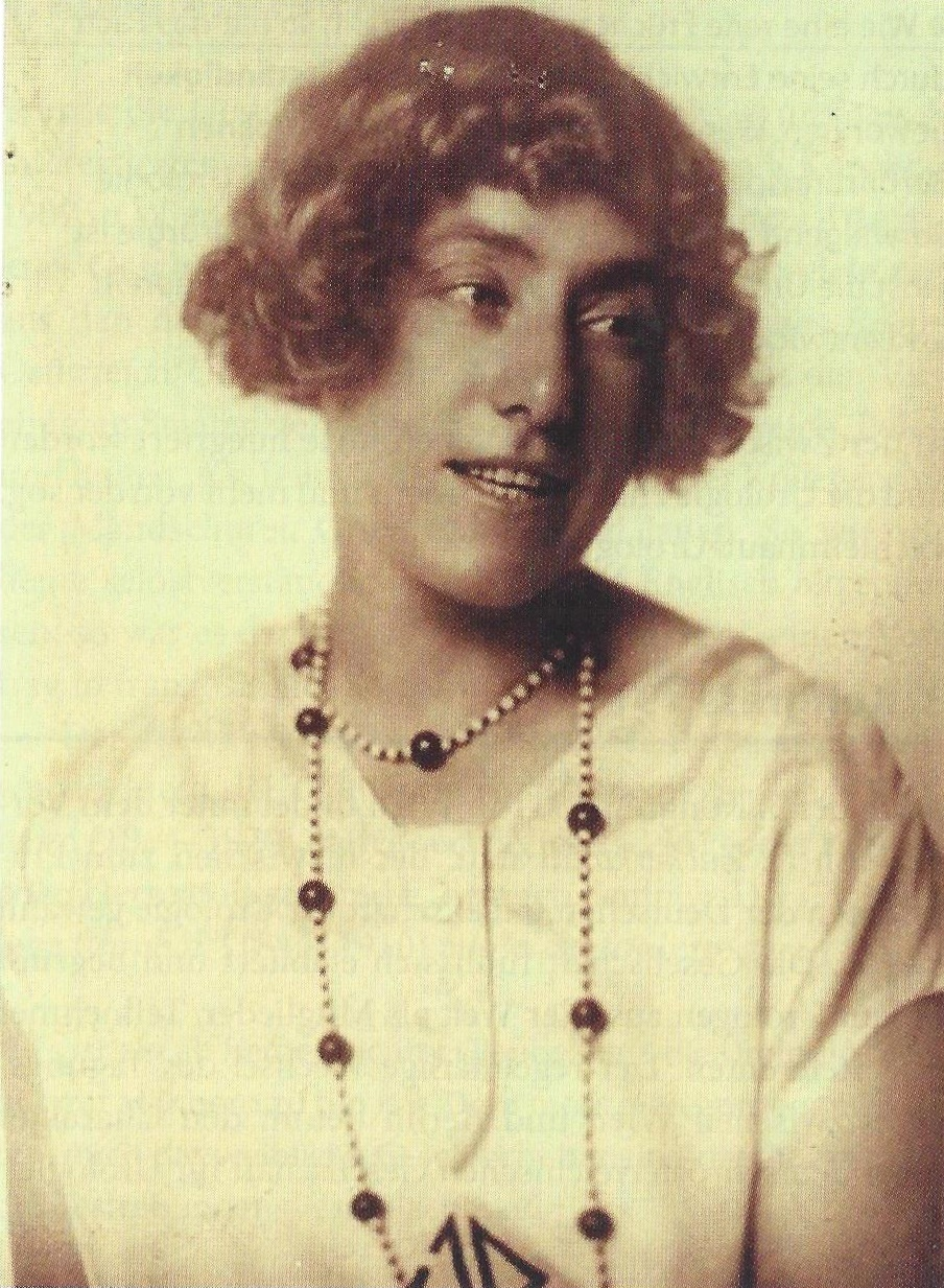 Portrait photograph of the urologist Dora Brücke-Teleky